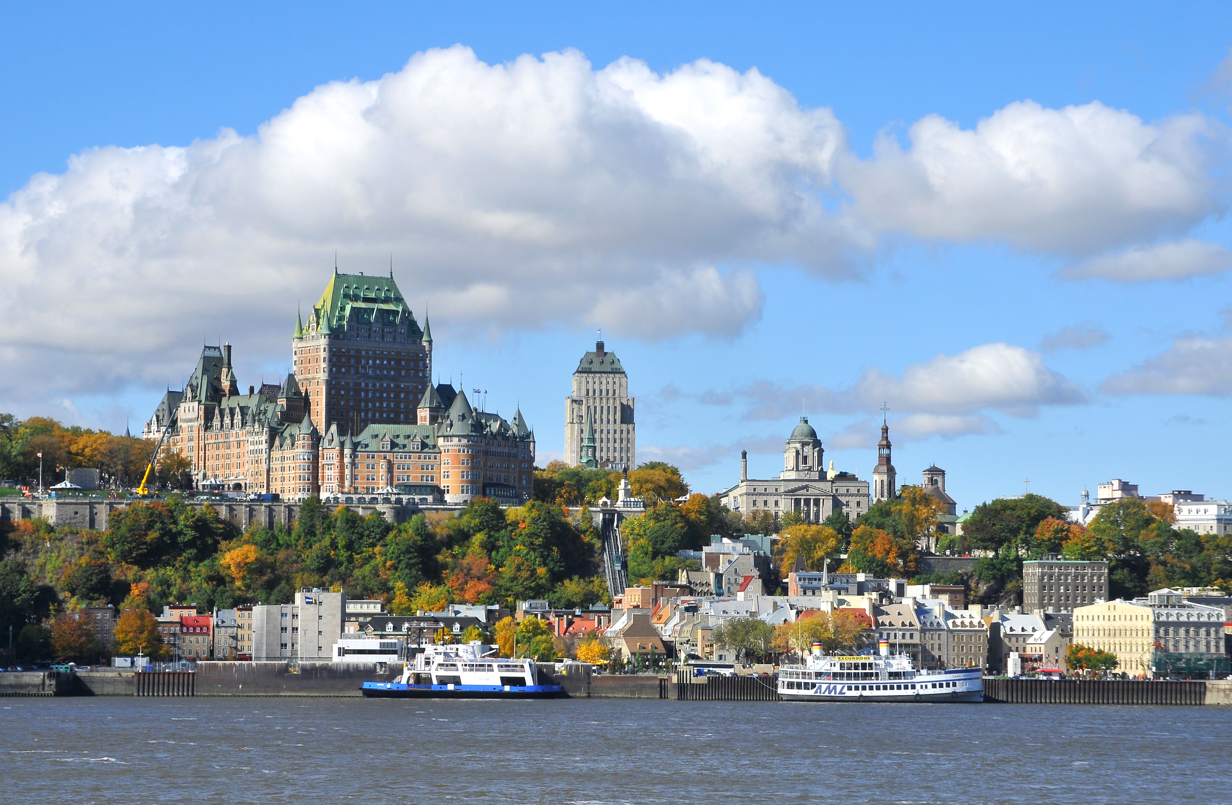 Old Town view, from Lévis. Quebec City, Quebec, Canada.